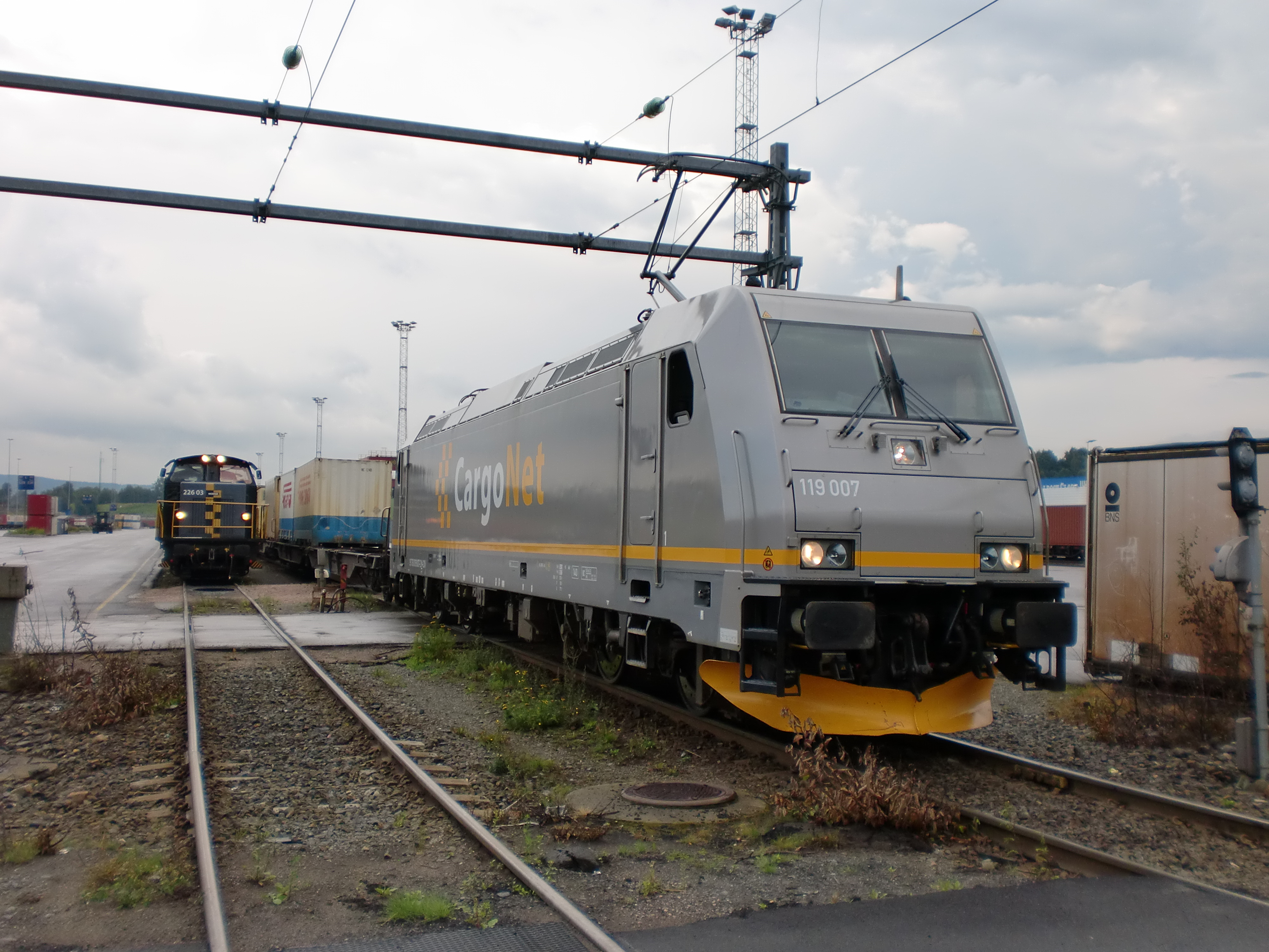 CargoNet's CE 119 007 at the cargo terminal Alnabru in Oslo, Norway